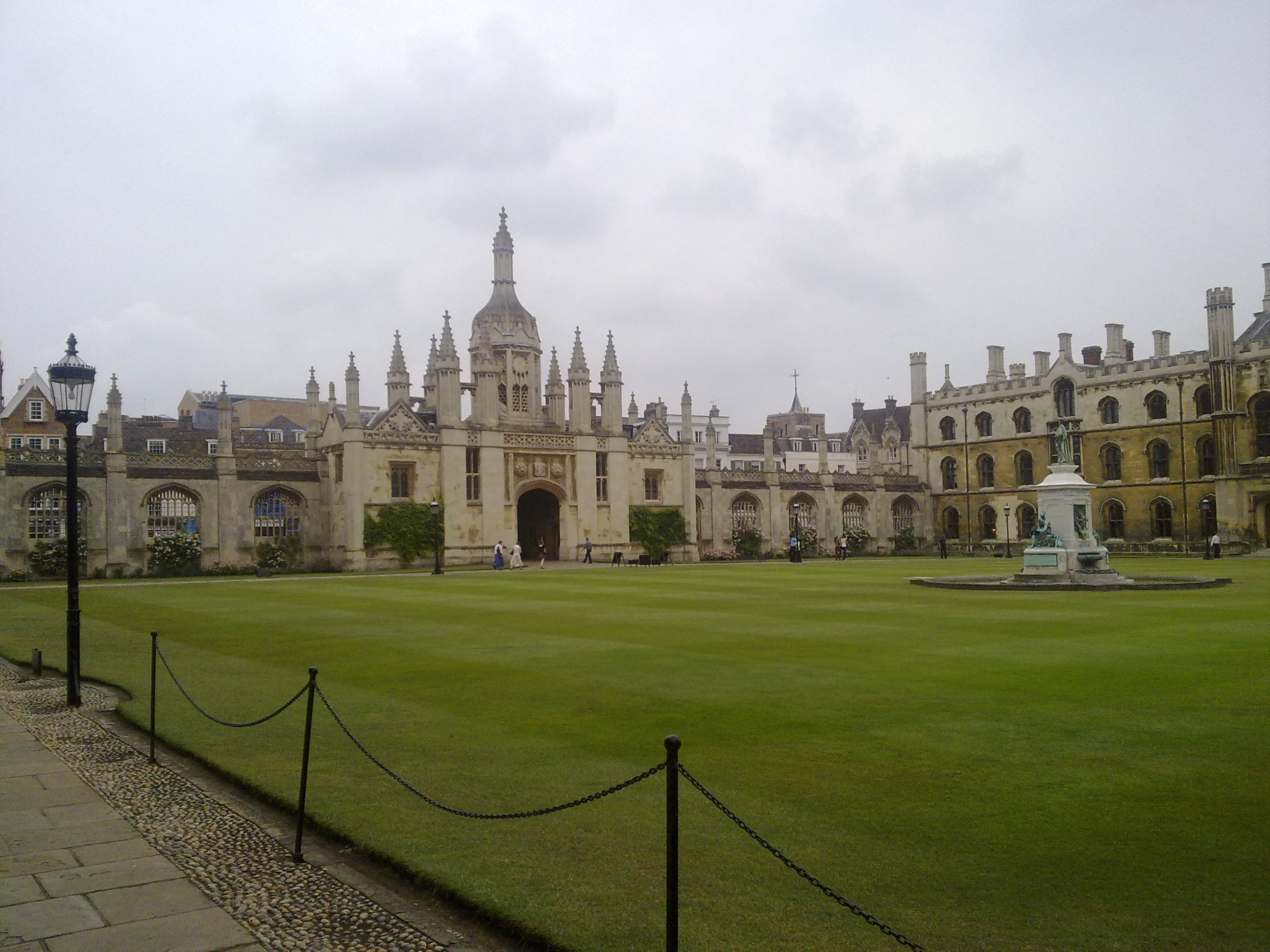 The Gatehouse of King's College, Cambridge, as viewed from adjacent to King's College Chapel in the Great Court.